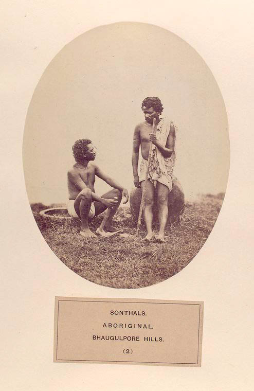 This image is from the book, The People of India, a series of photographic illustrations, with descriptive letterpress, of the races and tribes of Hindustan, originally prepared under the authority of the government of India, and reproduced. by J. Forbes Watson and John William Kaye between 1868 - 1875.